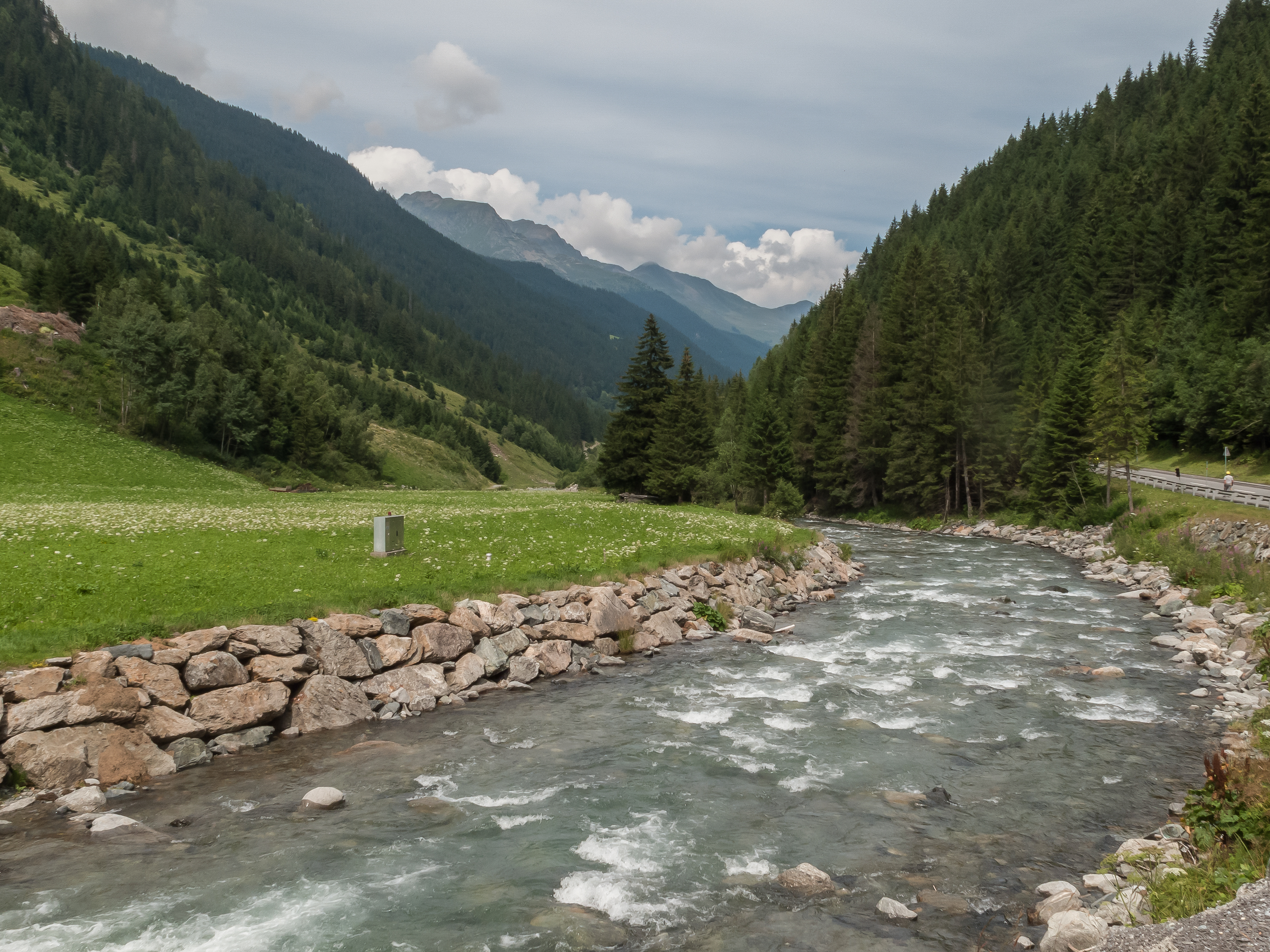 between Ischgl and Kappl, creek: der Ischgl